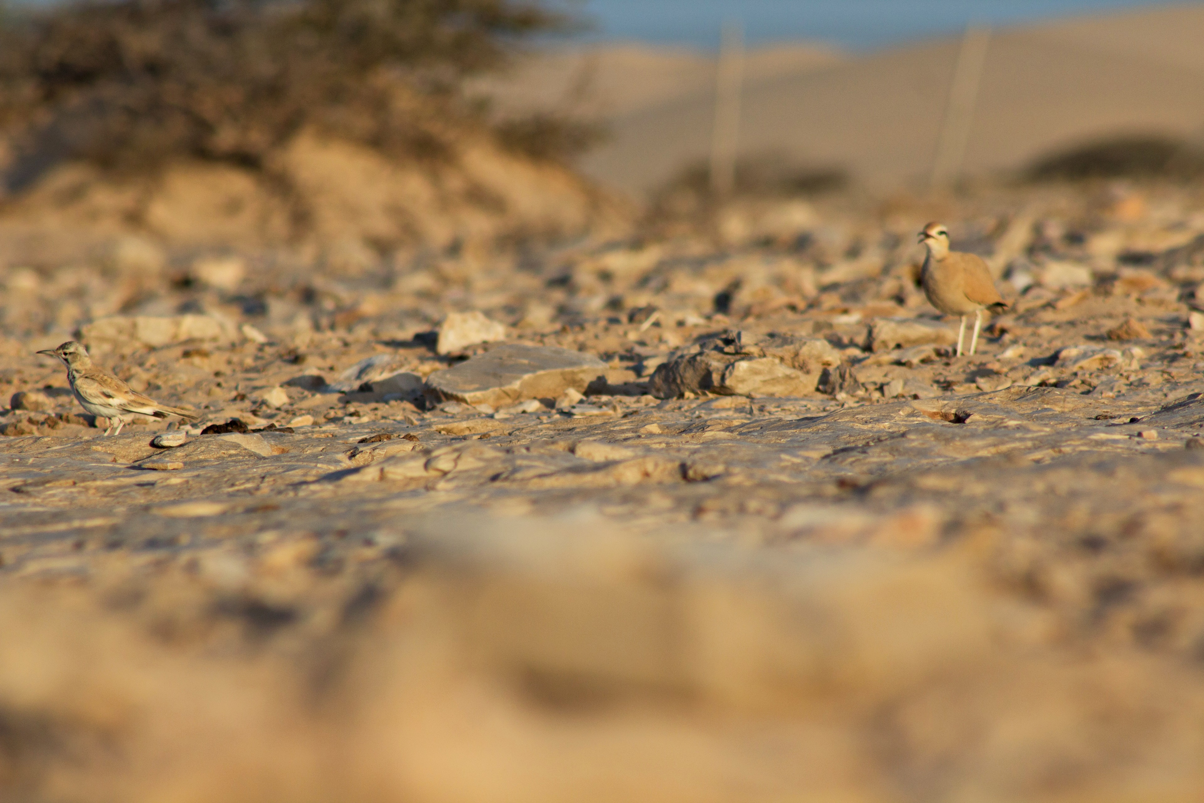 Alaemon alaudipes (left) and Cursorius cursor (right), in the station of aclimation Safia near the Western Sahara-Mauritania Borders, south of Dakhla.